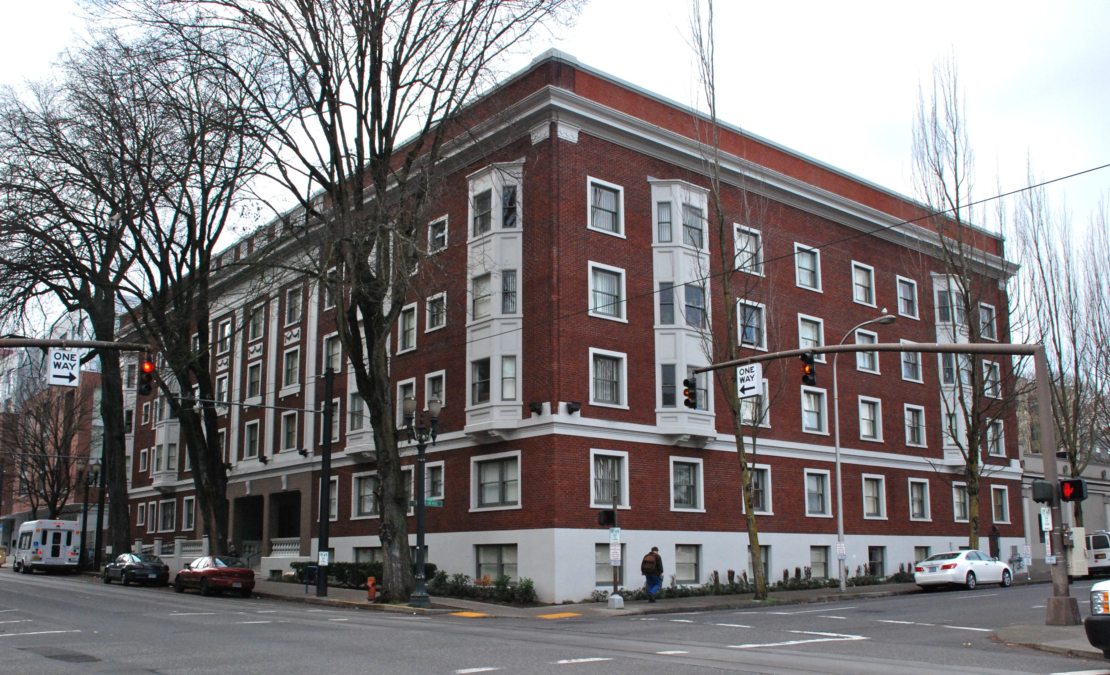 The Campbell Court Hotel, built in 1923 as a residential hotel, is located at 1115 S.W. 11th Avenue in Portland, Oregon. It is listed on the U.S. National Register of Historic Places.